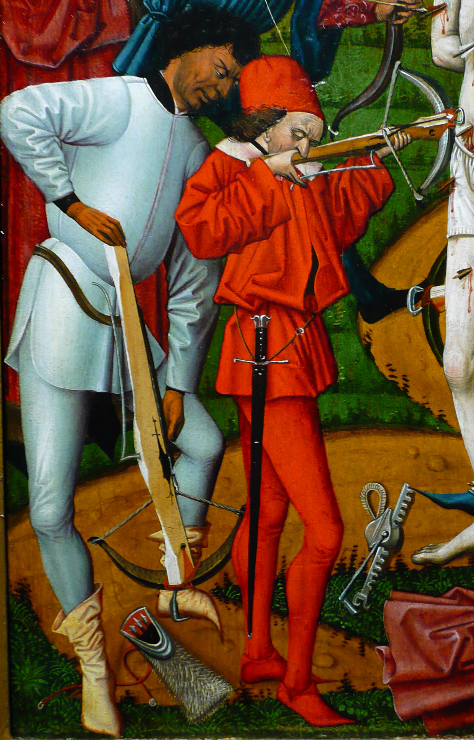 Crossbowmen at the Martyrdom of St Sebastian. Detail of a painting from Upper Bavaria (Munich?), around 1475. Current location: Wallraf-Richartz-Museum, Cologne, Germany